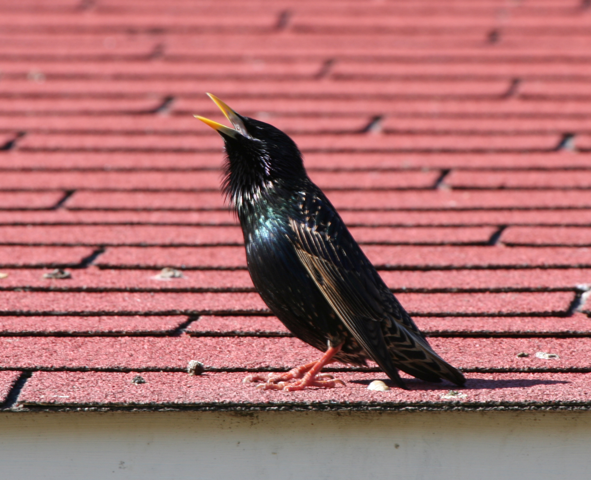 Starling Sturnus vulgaris, feral, San Francisco, California